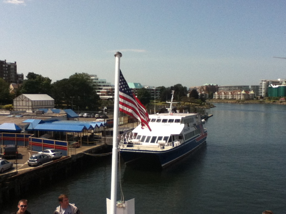 The flag of the United States flying on the Black Ball Ferry Line in the Victoria Harbour.